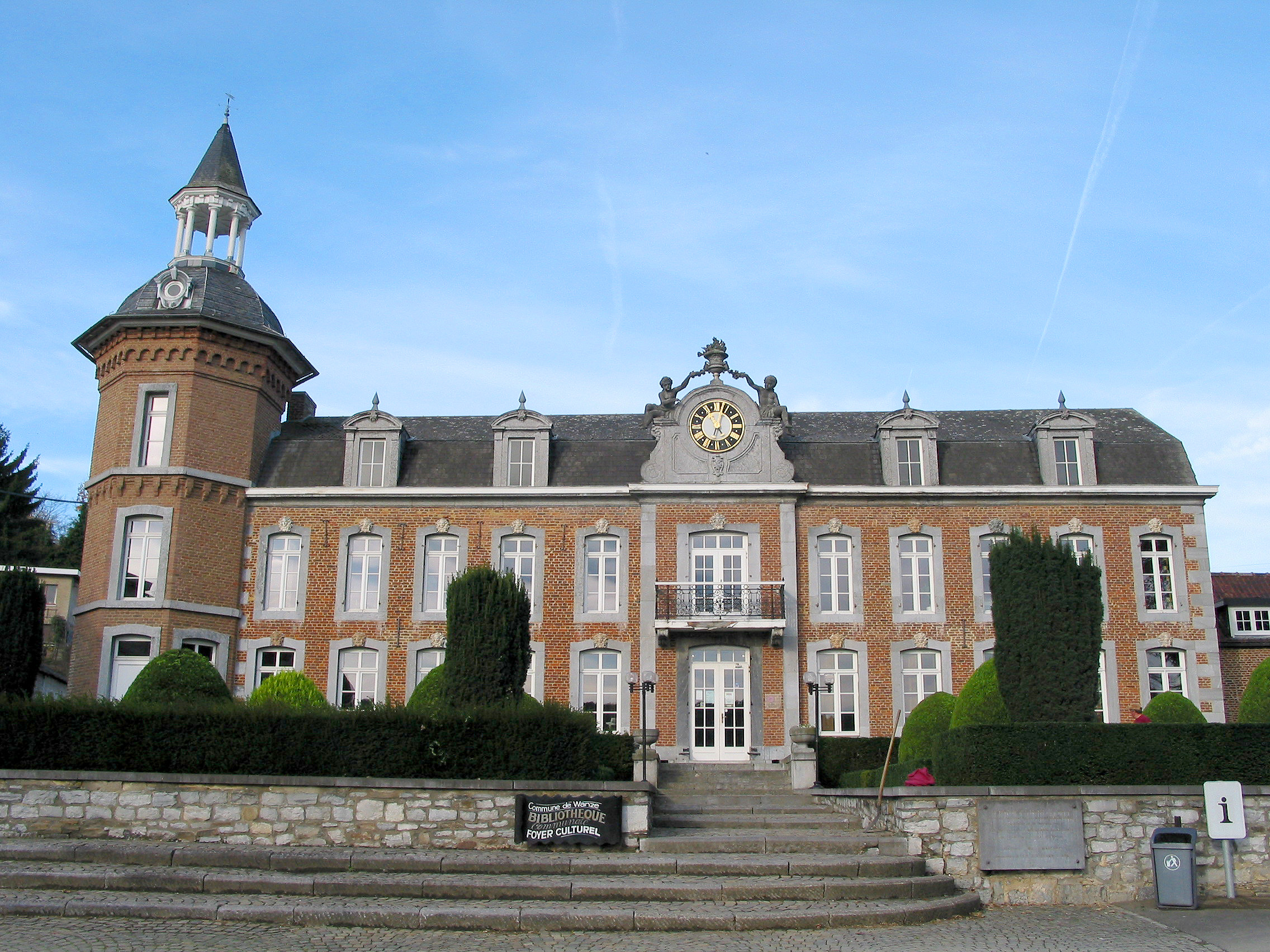 Bas-Oha (Belgium), the former "de l'Horloge" Castle (XVIIIth century).